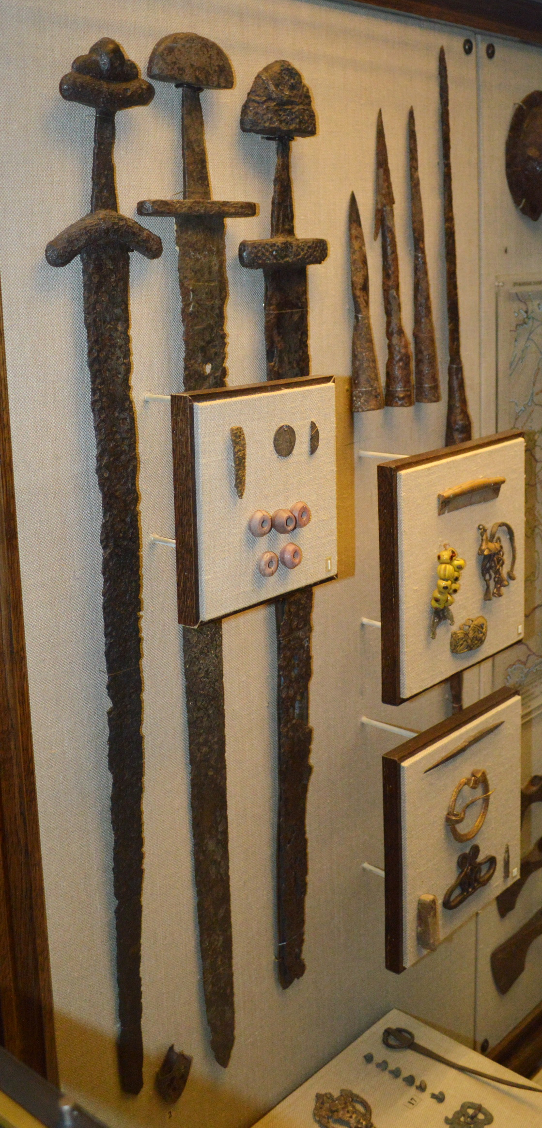 Swords, spear heads. Ancient Rus'. Small artefacts from Rurikovo Gorodische, Novgorod, Gnezdovo.